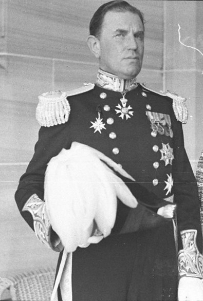 Lord Wakehurst (1895-1970) upon his arrival in Sydney as Governor of New South Wales in 1937.